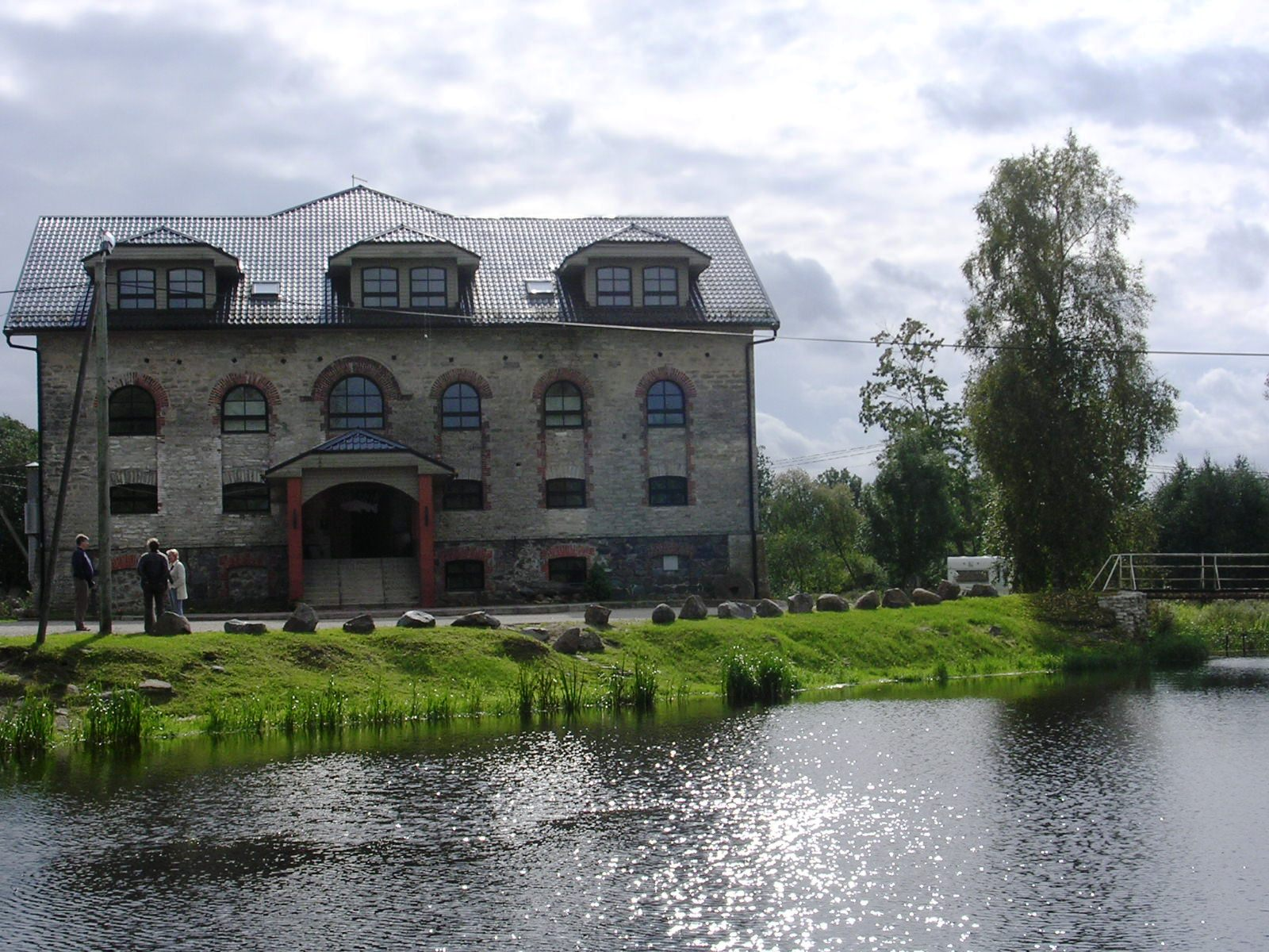 Veskisilla, hotel and motel in an old watermill house